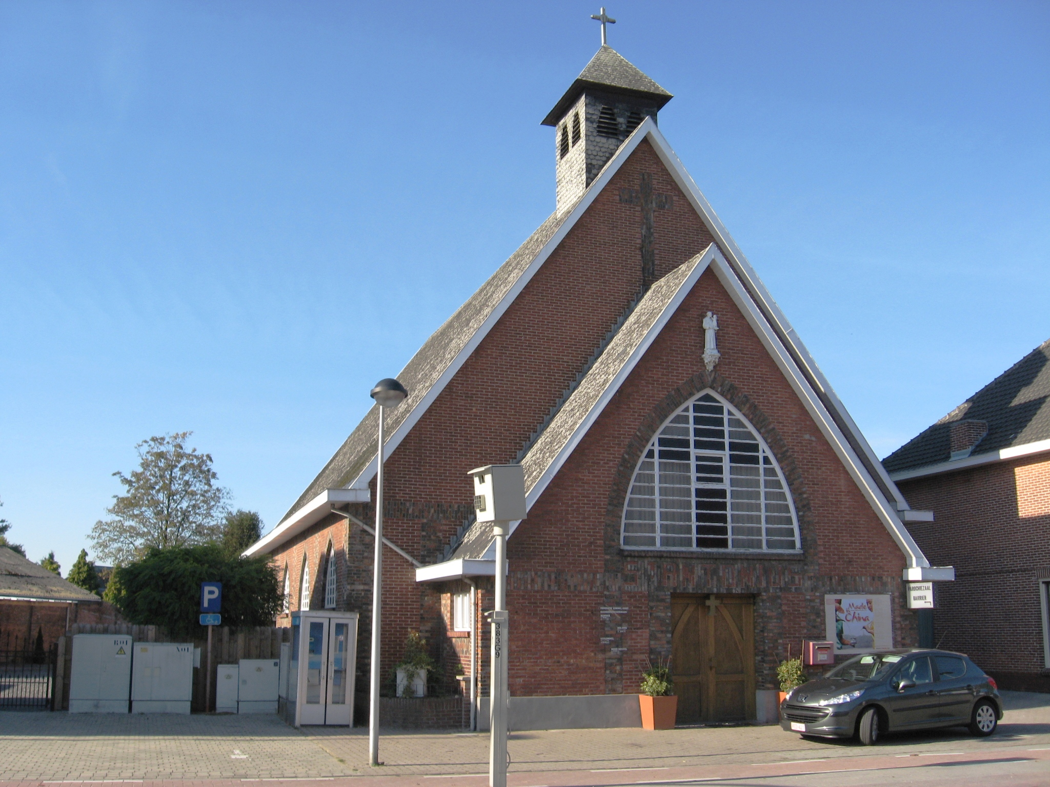 Church of Saint Anthony in Lommel (Barrier), Limburg, Belgium